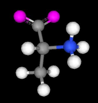 D-Al - Ball and stick molecular graphic created by program Ghemical